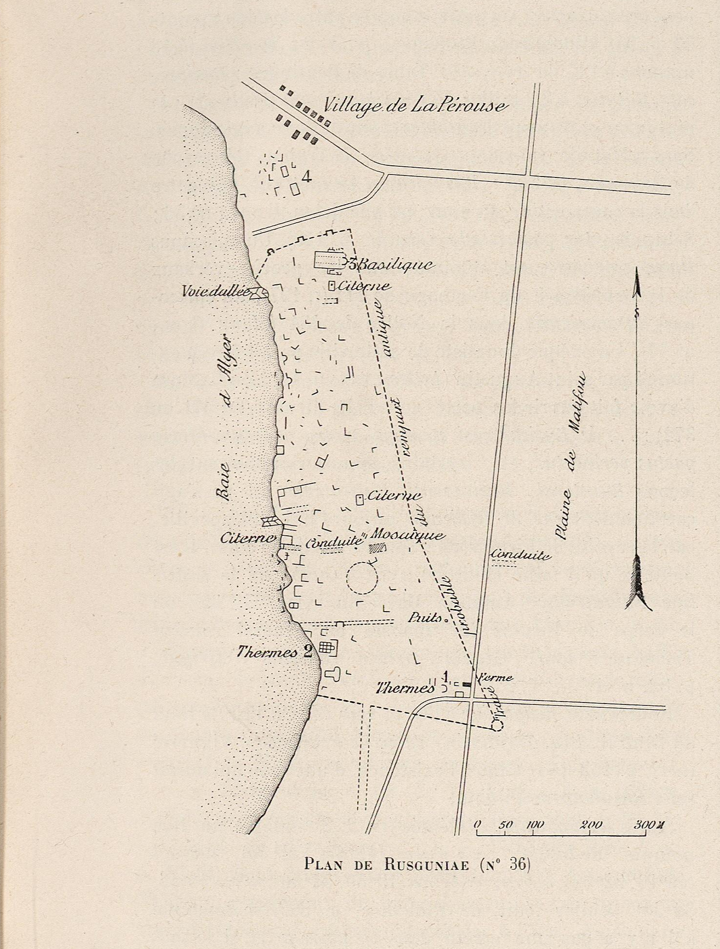 Plan de Rusguniae selon Chardon